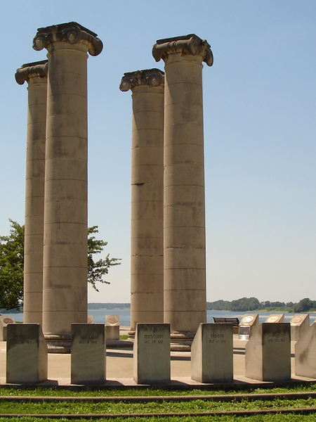 Four Freedoms Monument, Evansville, Indiana. Original photograph with free documentation license.